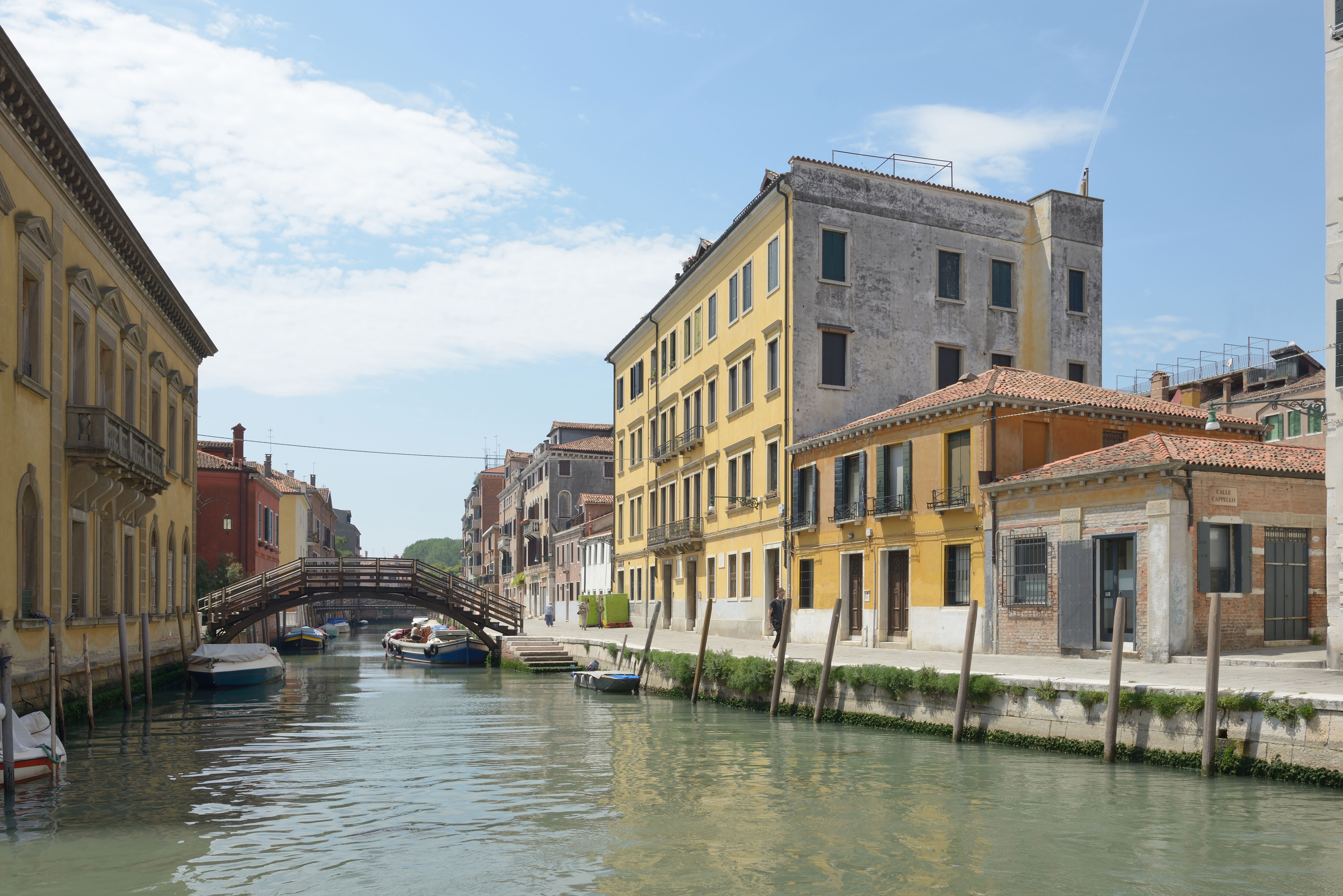 Rio dei Tentor canal, view from Ponte Rosso in Venice.